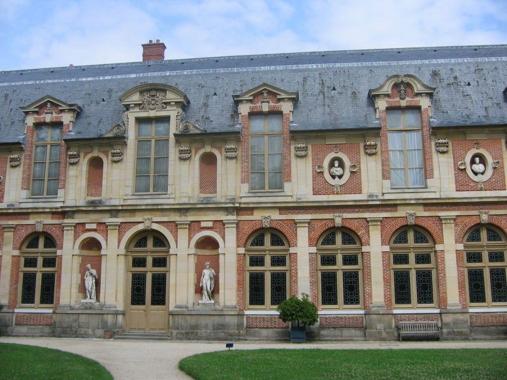 Aile de la Galerie de Diane au château de Fontainebleau